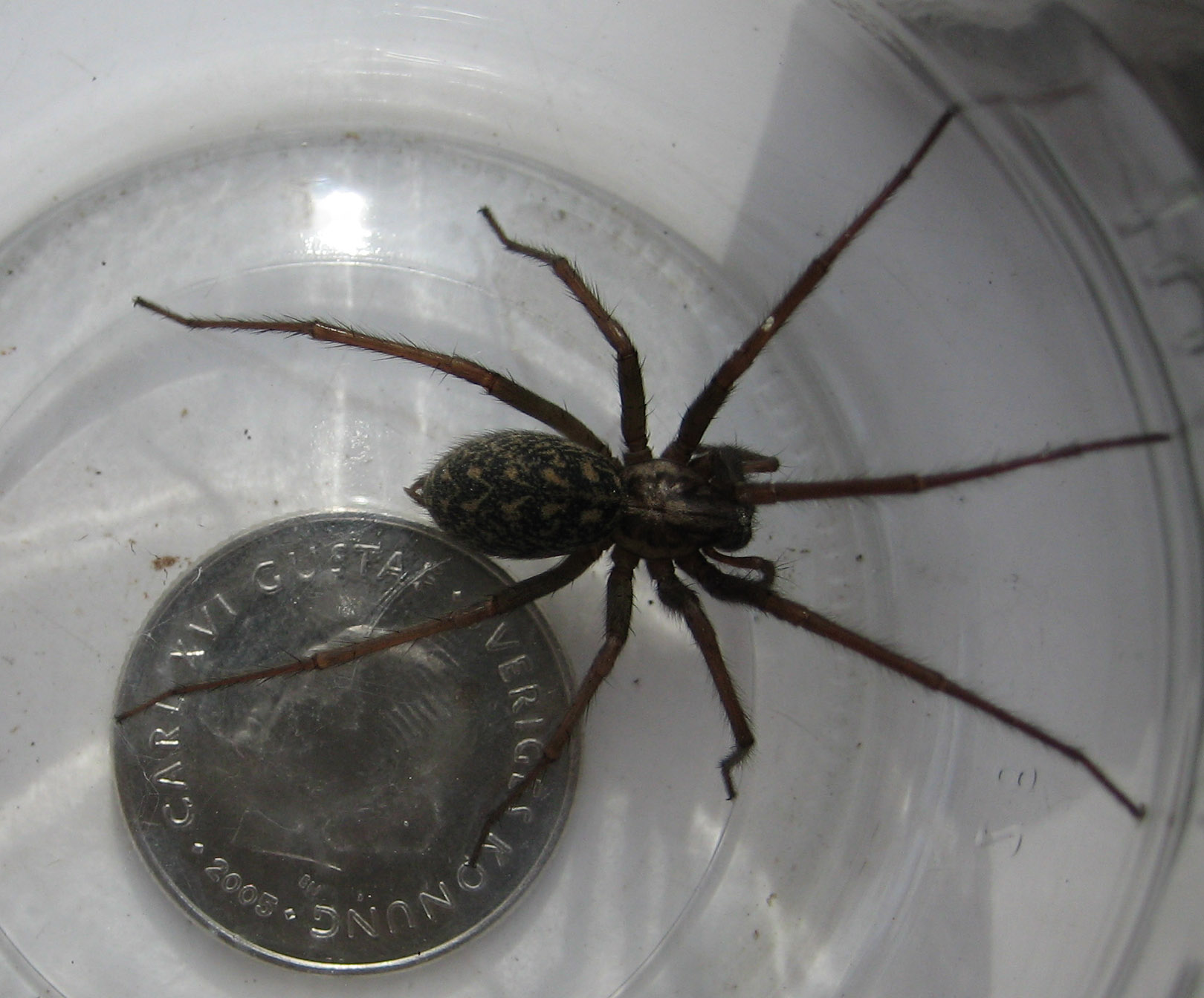 Större husspindel, hona, Tegenaria atrica, Vejbystrand, Skåne, sommaren 2007. (Female Tegenaria atrica, photo taken in Vejbystrand, Sweden, summer 2007.) The coin is a swedish krona (crown) (1 SEK) with a diametre of 2,5 cm.